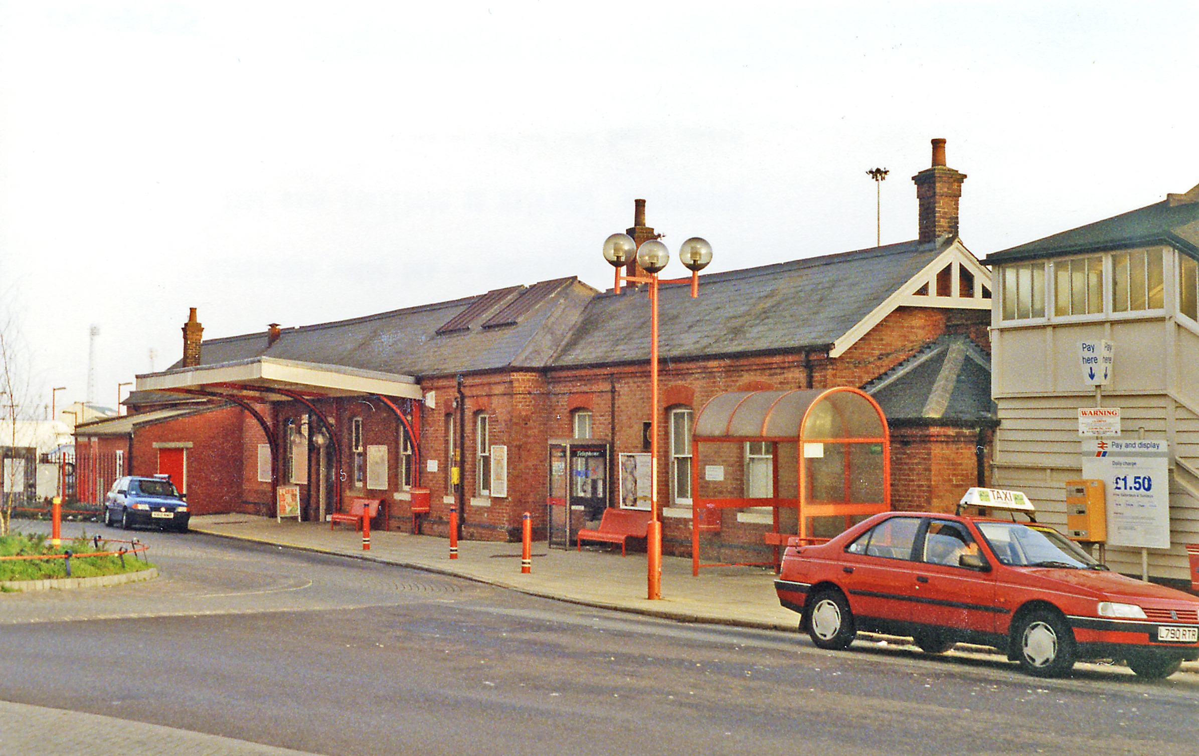 Fratton station, exterior Up side 1994. View eastward (inland), towards Portcreek Junction, then Southampton westwards, Havant, and London, Chichester and Brighton eastward: ex-LSWR & LB&SCR Joint main lines into Portsmouth.